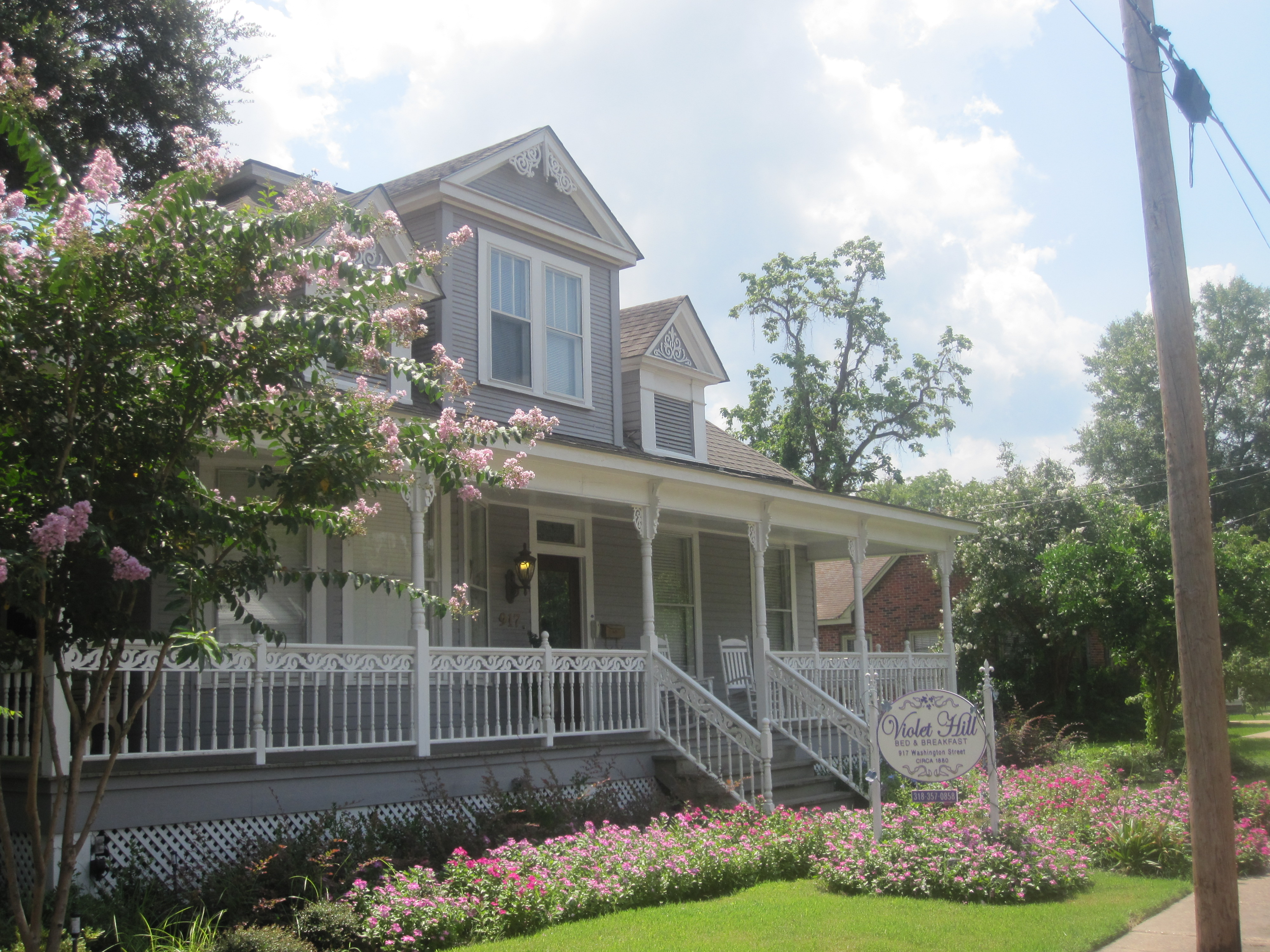 Violet Hill Bed and Breakfast in Natchitoches, LA